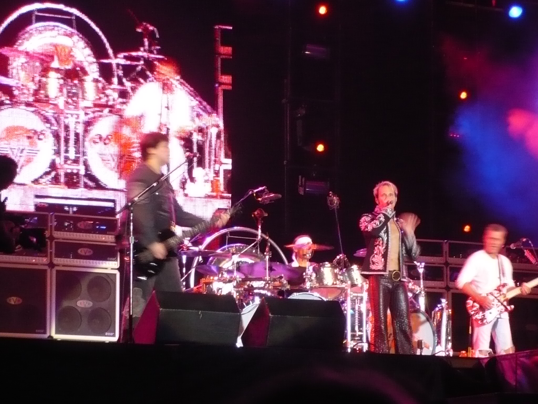 Van Halen at their last ever show, in Québec city (2008)